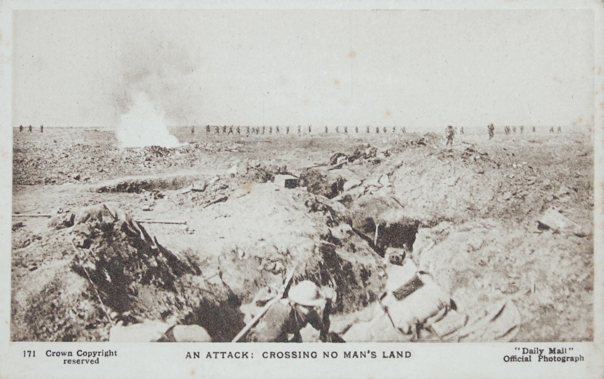 World War I Daily Mail Official War Photograph, Series 22, No. 171, titled "An attack: crossing no man's land". The obverse carries the following information: "Passed by Censor" and "This photograph, taken from a communications trench, shows the attackers advancing over "No man's Land"."